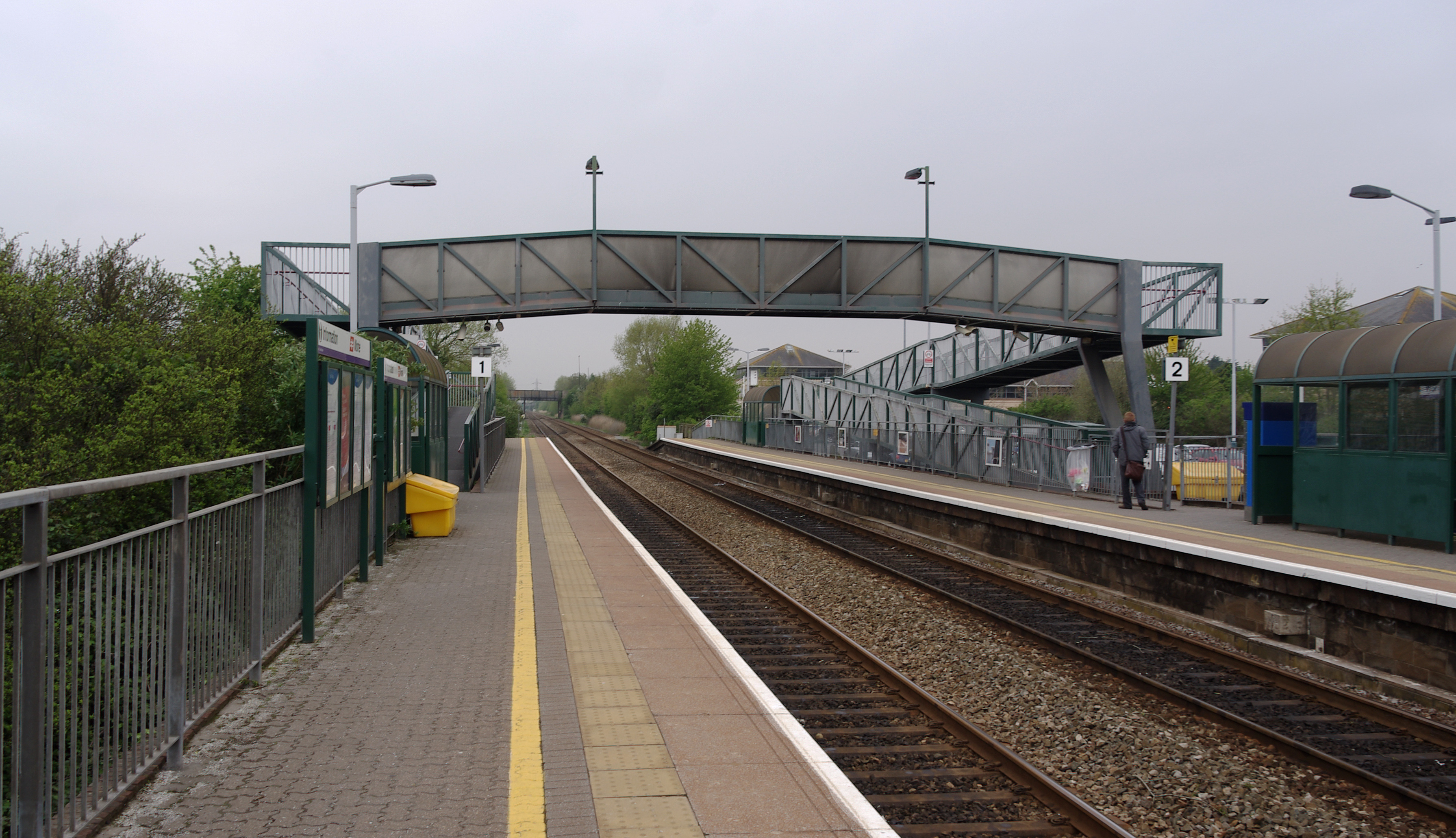 Worle railway station, looking west from the east end of the westbound platform. I'm really not happy with this photo - for some reason, it seemed very difficult to get decent photos of the place. Maybe something to with the bridge. Who knows.